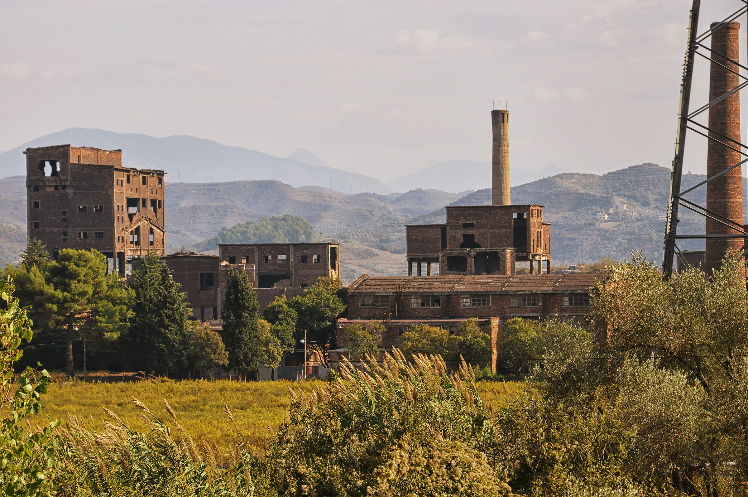 The ruins of the communist steelworks (Steel of the Party, Çeliku i Partisë) between Elbasan and Bradashesh, Albania